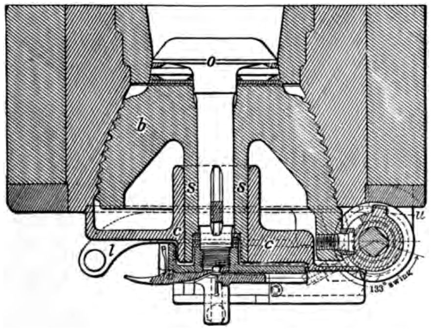 Diagram depicting Bofors ogival screw breech block. Depicted is US 6-inch gun. Text : The block, b, is ogival in shape and has six threaded and six slotted sectors. With the ogival shape a very small retraction to the rear is necessary before the block may be swung open. In the 6-in. gun this retraction is 1.2 ins., just sufficient to withdraw the obturator o from its seat in the bore. The block is supported when the breech is opened by the block carrier c provided with a central tube which embraces a spindle s formed in the block. The mechanism is actuated by means of the lever l (see figure 111 File:Bofors ogival breech operation photos.jpg) which is attached to the lower end of the hinge pin. A spool p mounted on the hinge pin has teeth cut near its lower end which engage in the rack r. The rack slides in a horizontal groove cut in the block carrier c, and the teeth at its left mesh with corresponding teeth on the hub of the breech block which projects through the rear face of the carrier. When rotation of the block is completed a lug, u, (see figure 110 File:Bofors ogival breech operation photos.jpg) on the spool engages in a slot at the rear end of the block and translates the block slightly to the rear. Before this translation is complete the block carrier is unlocked from the gun, and swings to the rear with the block, fully uncovering the bore. The loading tray, shown in figure 113 (see File:Bofors ogival breech operation photos.jpg) the purpose of which is to protect the threads of the breech from injury as the shot is put into the bore, remains permanently in the breech. When the block is entered and rotated the tray is pushed aside by the threads on the block until it covers the slotted sector. On opening the block it is brought back into the position shown.